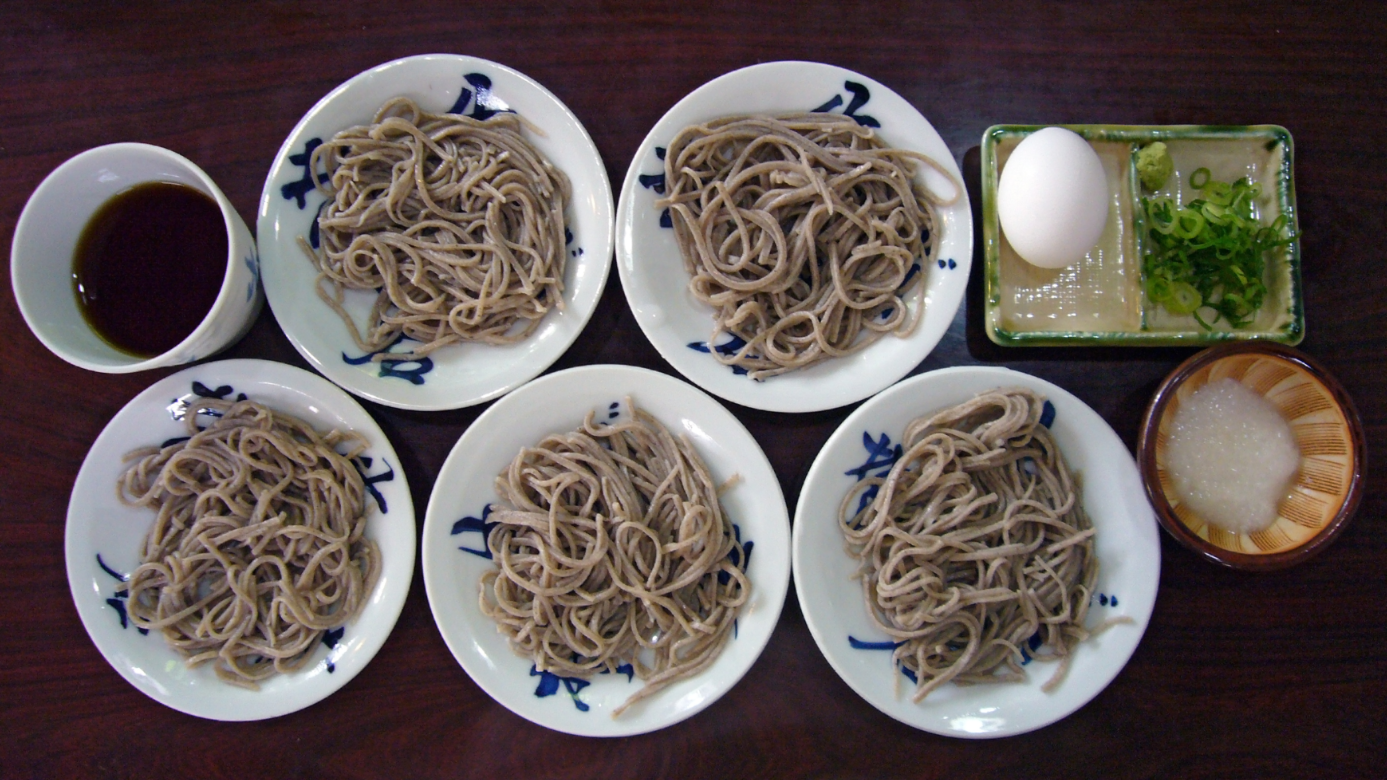 Izushi soba a variety of soba named after Izushi, Toyooka, Hyogo prefecture, Japan